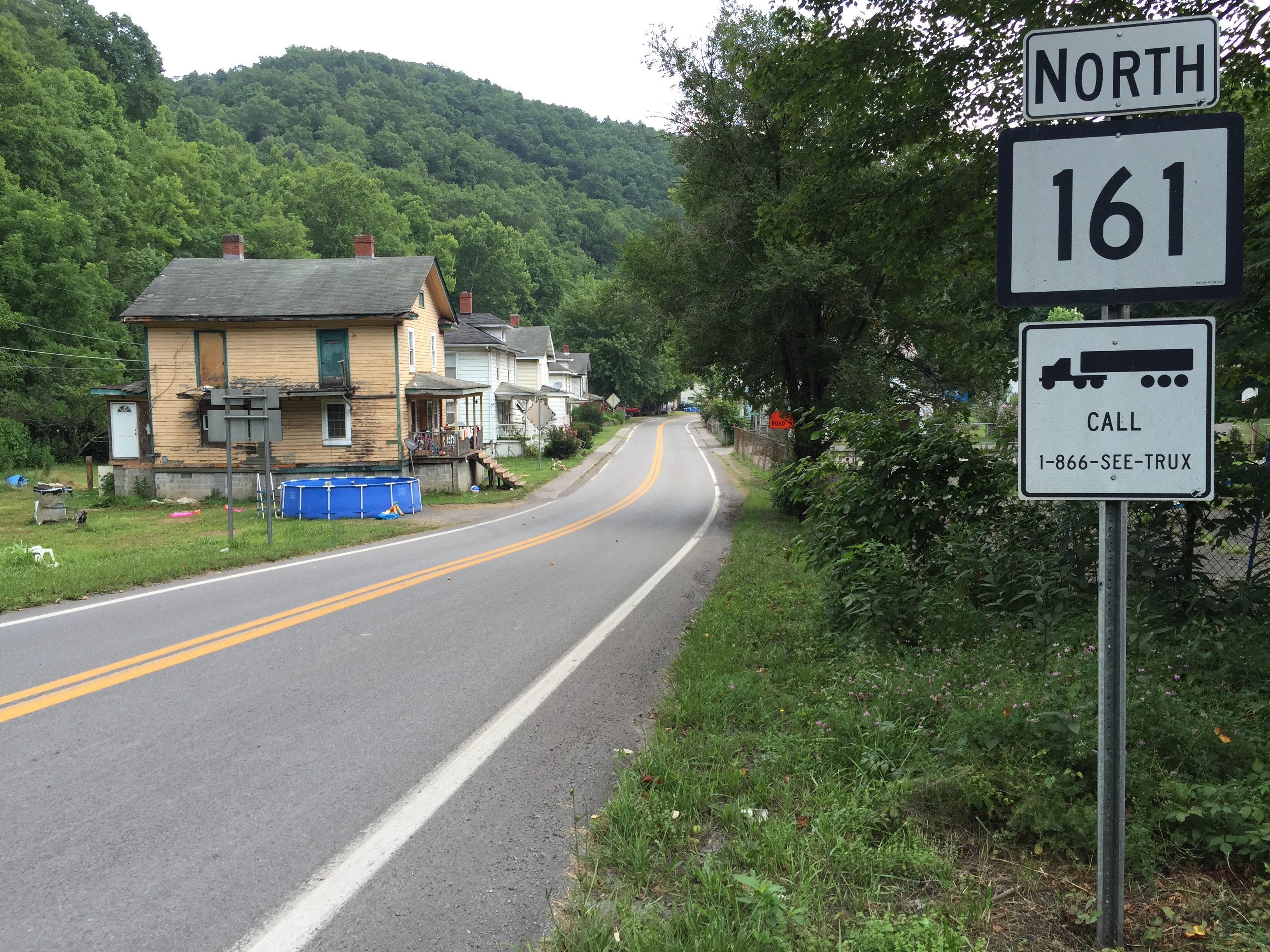 View north along West Virginia State Route 161 (Skygusty Highway) at West Virginia State Route 16 in Bishop, McDowell County, West Virginia